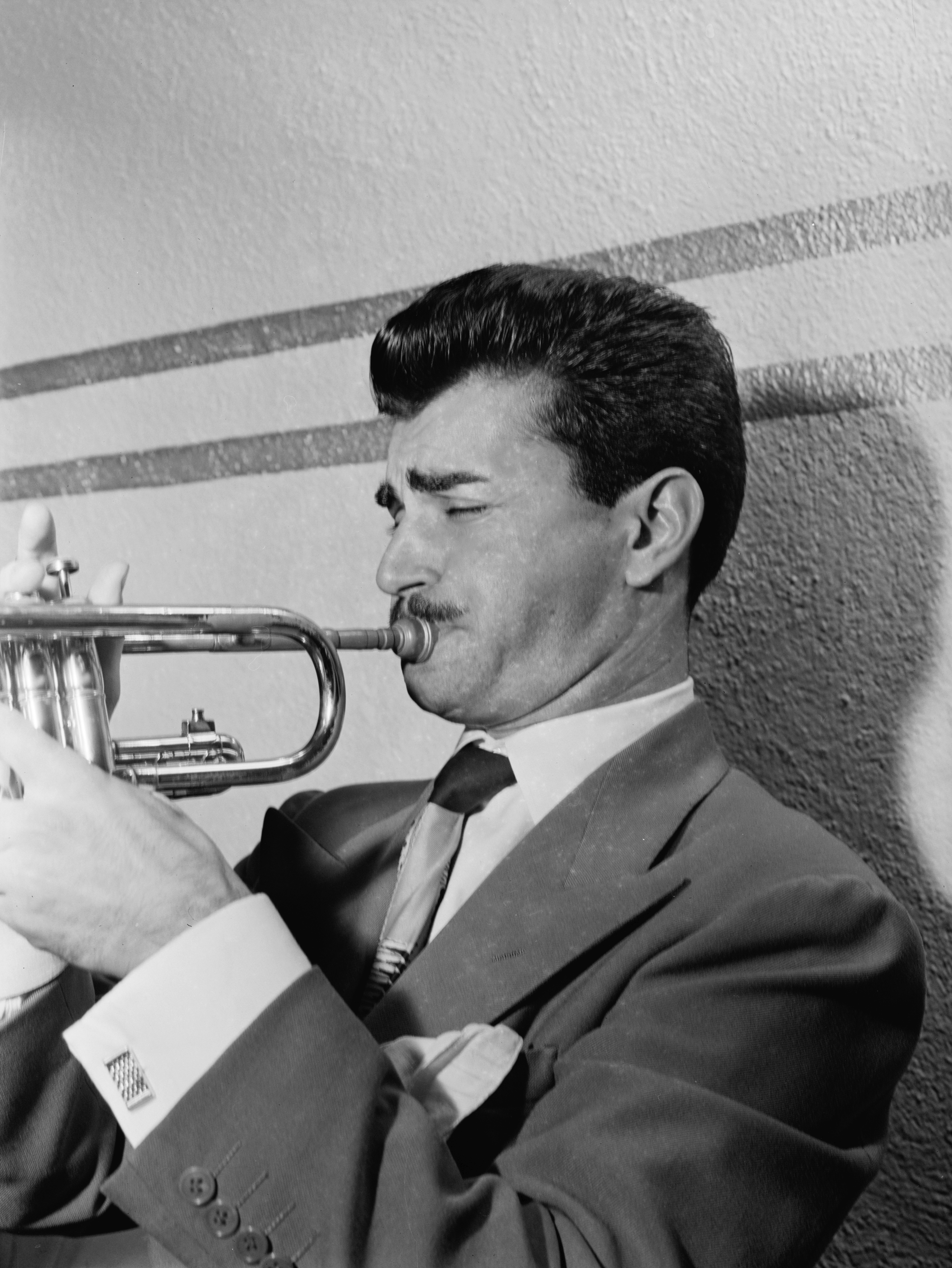 Chico Alvarez, between 1947 and 1948